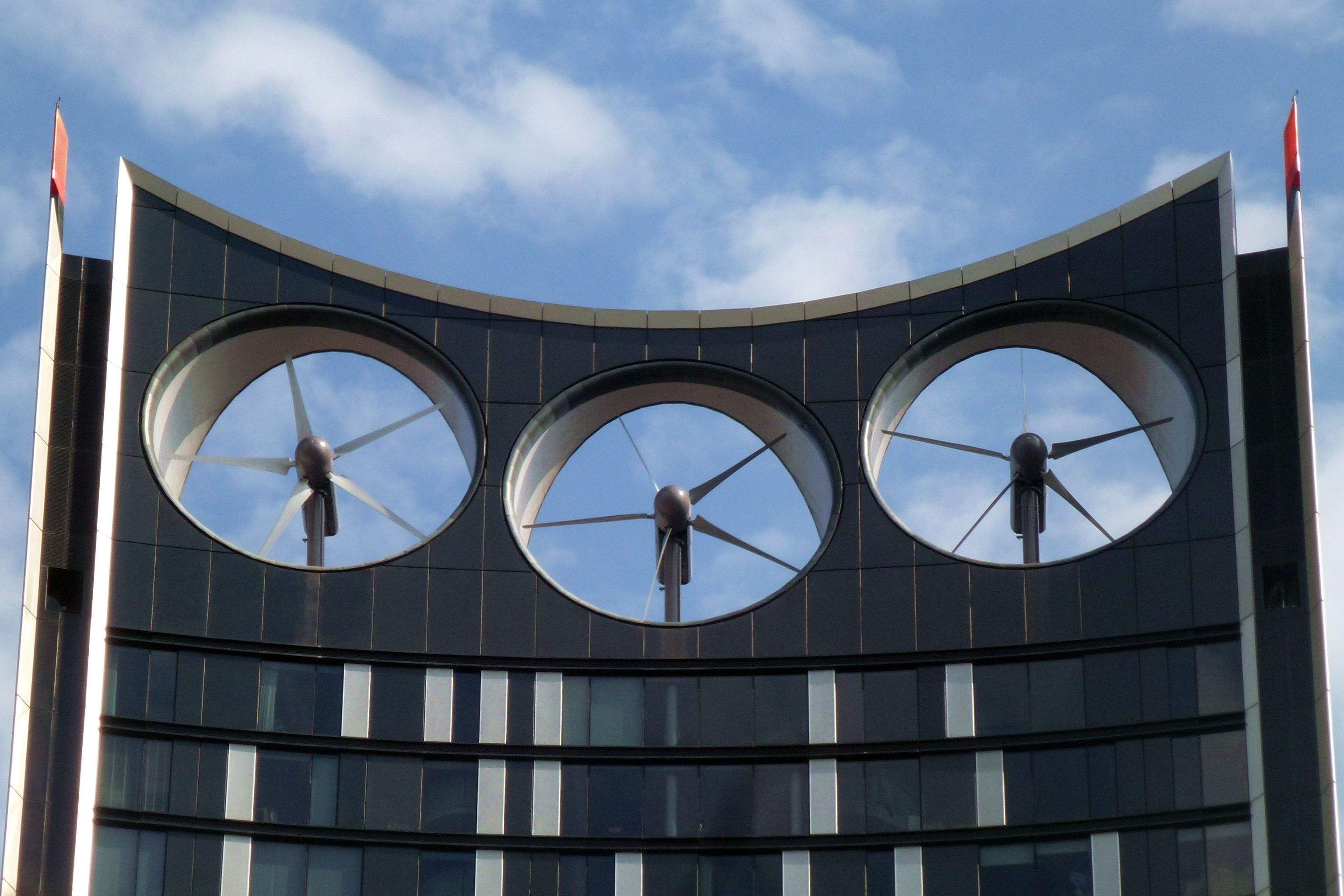 Detail of the wind turbines of Strata SE1 in August 2012.